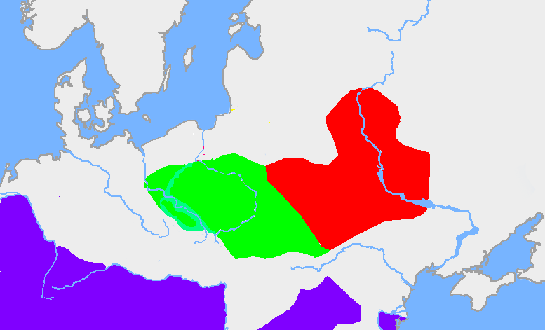 Two cultures: Zarubynets and Przeworsk complex.